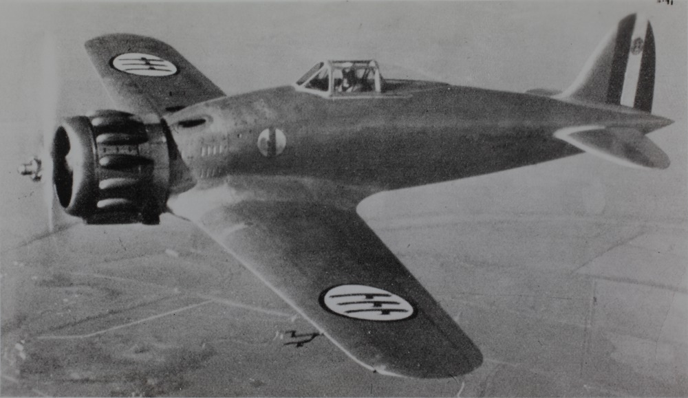 PictionID:42003021 - Title:Macchi MC-200 - Catalog:15_003037 - Filename:15_003037.TIF - Image from the Charles Daniel's Collection Italian Aircraft Album.Repository: San Diego Air and Space Museum Archive